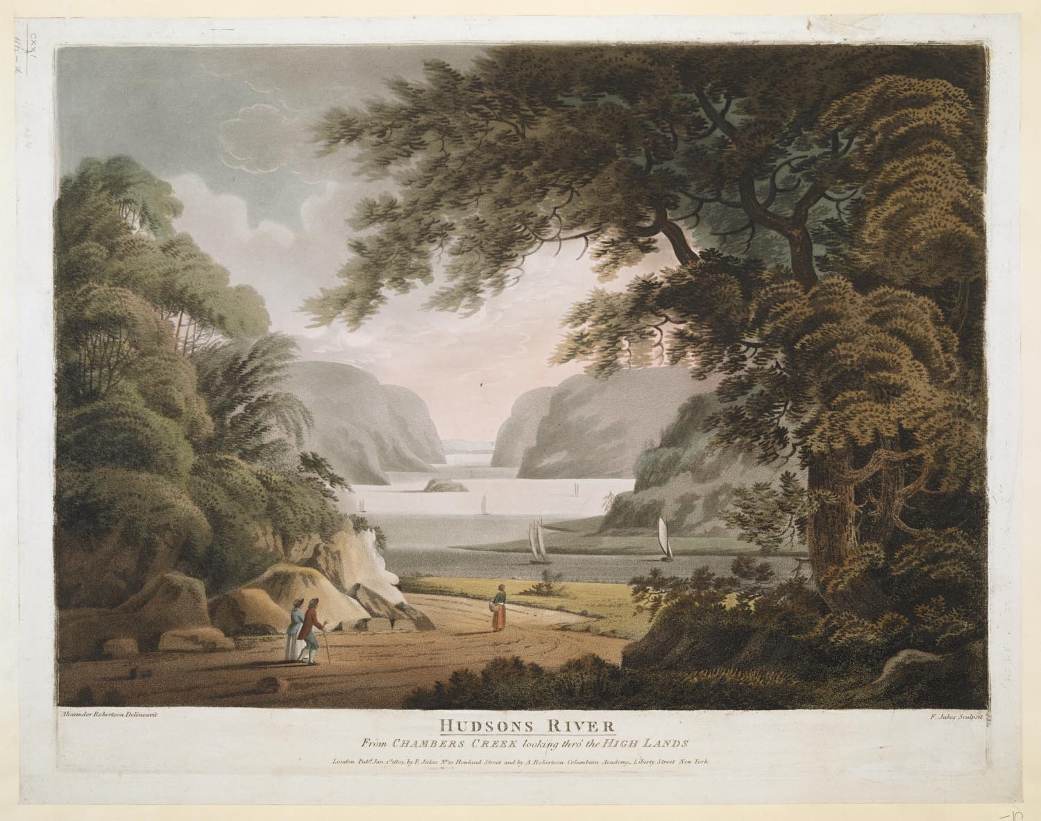 Aquatint by Francis Jukes depicting the Hudson River Highlands from Chambers Creek (now known as Quassaic Creek), located between present-day Newburgh, NY and New Windsor, NY.